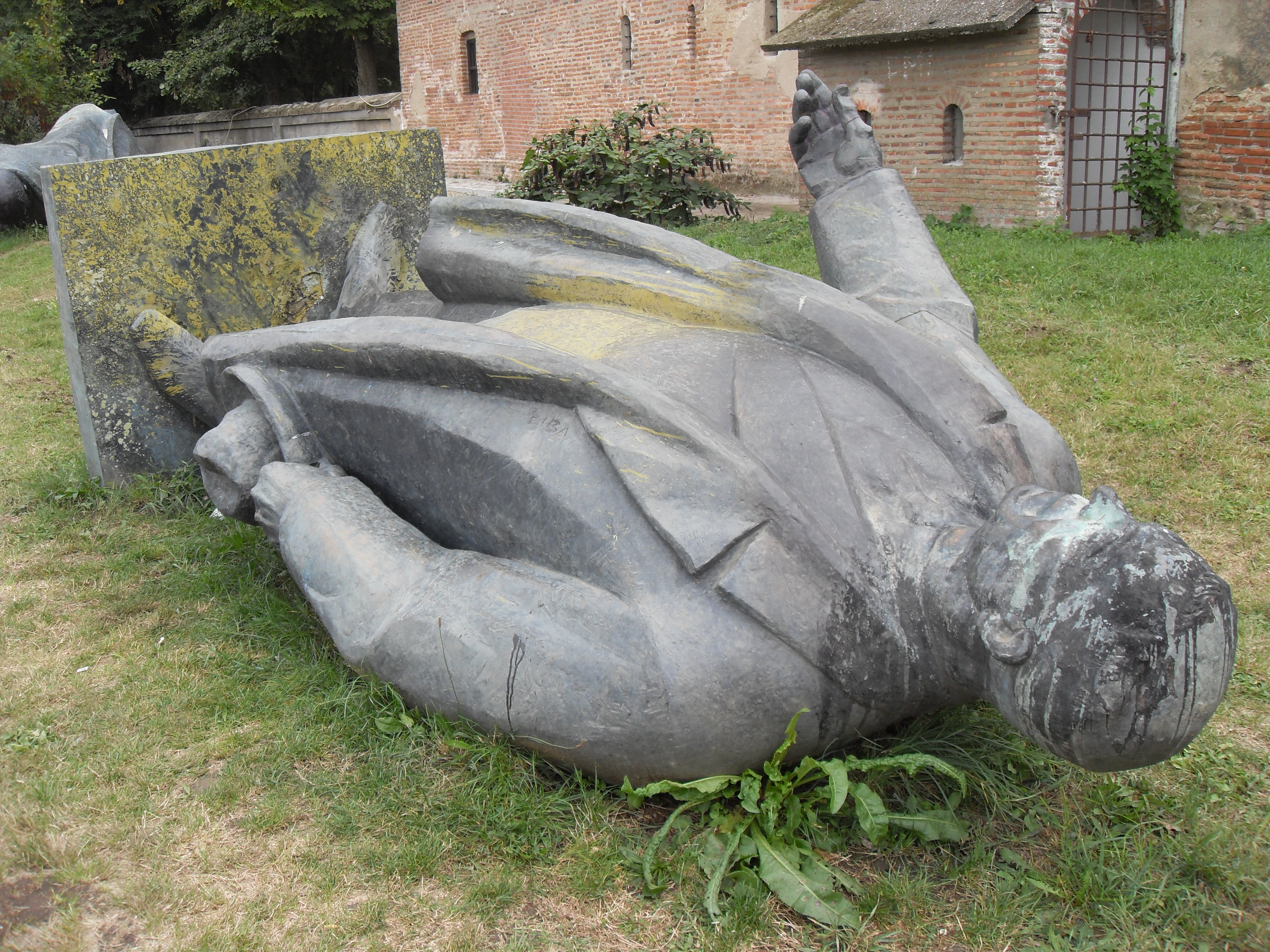 Fallen statue of the communist leader Petru Groza next to the Mogoşoaia Palace (Romania)